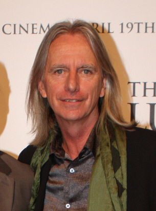 Scott Hicks